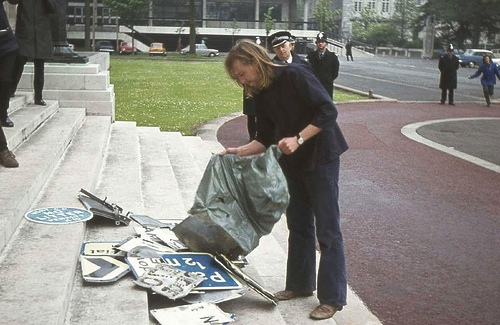 Protestors dumping road signs at the steps of the Welsh Office in Cathays Park, Cardiff, Wales